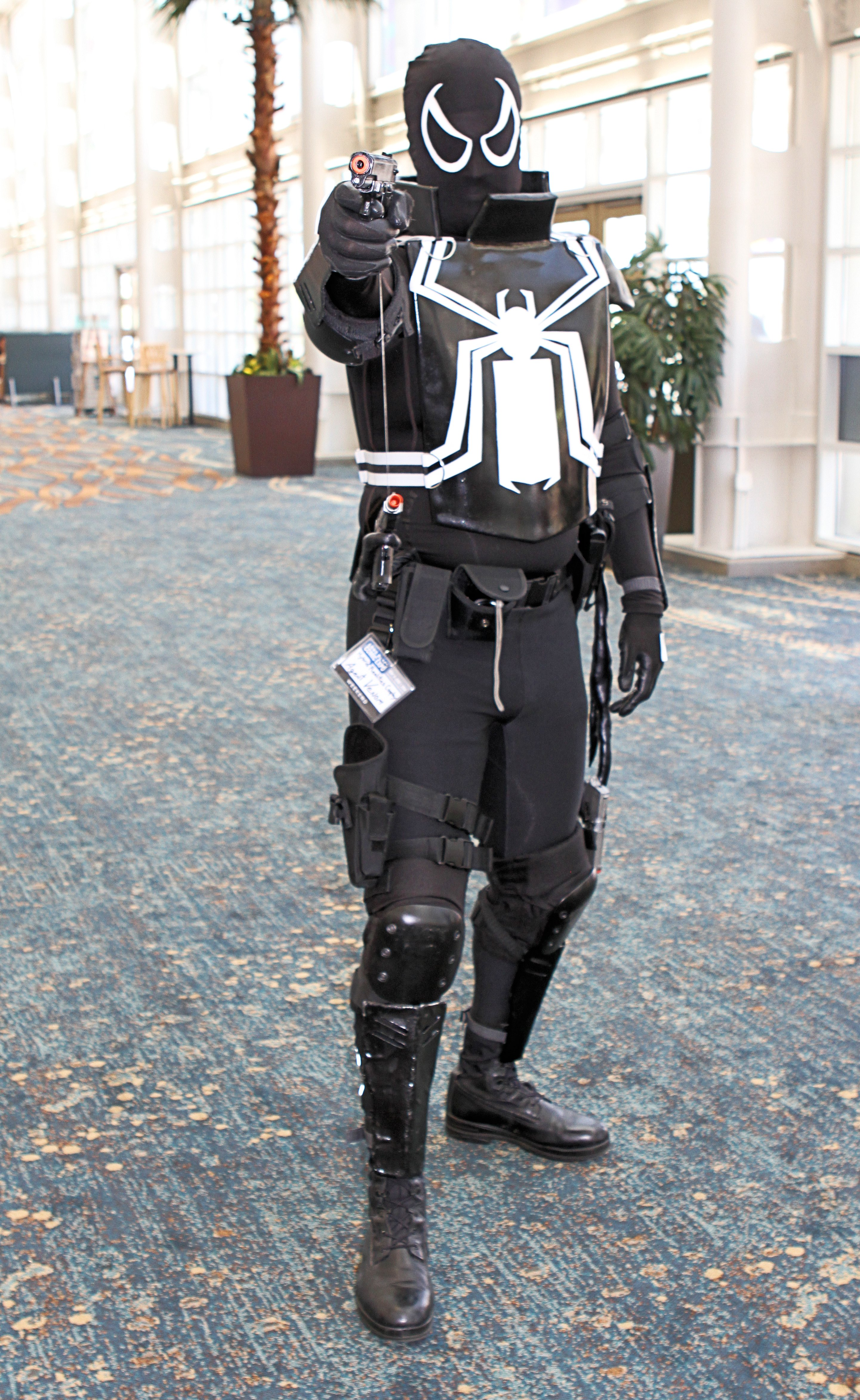 Cosplay at Long Beach Comic Expo 2014.